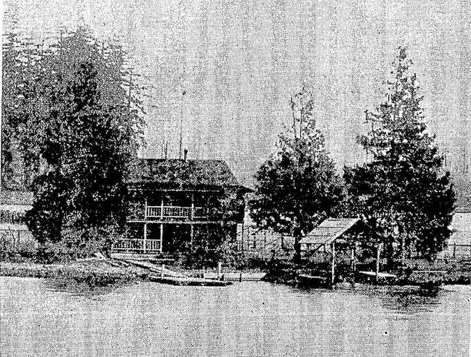 Black and white photograph of a two-story wood building and some surrounding trees, with water in the foreground